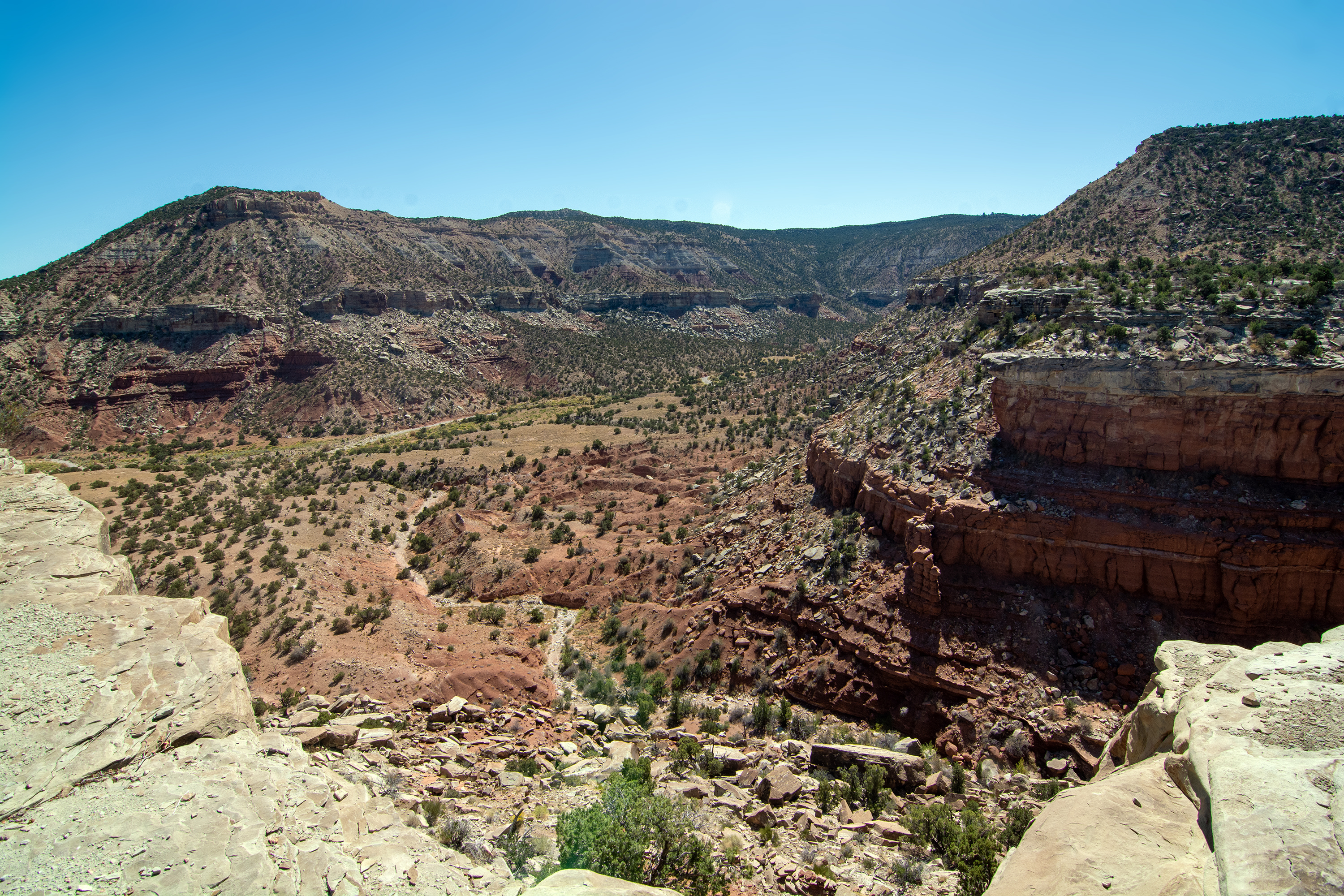 Jurassic National Monument, at the site of the Cleveland-Lloyd Dinosaur Quarry, well known for containing the densest concentration of Jurassic dinosaur fossils ever found, is a paleontological site located near Cleveland, Utah, in the San Rafael Swell, a part of the geological layers known as the Morrison Formation. Well over 15,000 bones have been excavated from this Jurassic excavation site and there are many thousands more awaiting excavation and study. It was designated a National Natural Landmark in October 1965. The John D. Dingell, Jr. Conservation, Management, and Recreation Act, signed into law March 12, 2019, named it as a national monument. All of these bones, belonging to different species, are found disarticulated and indistinctly mixed together. It has been hypothesised that this strong concentration of mixed fossilised bones is due to a "predator trap", but any kind of definitive scientific consensus hasn't been reached yet and debates still continue to the present day. Unfortunately I arrived only to learn that it was closed for the season, so I explored the surrounding area. I'll return next year to see the visitor center.